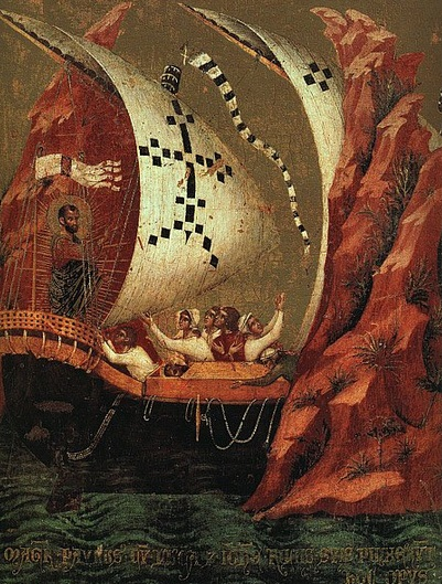 Paolo Veneziano, Scene from St. Marc's Life (1345), Basilica di San Marco, Venice